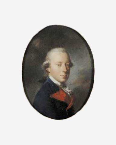 Depicted person: Leopold of Brunswick-Wolfenbüttel